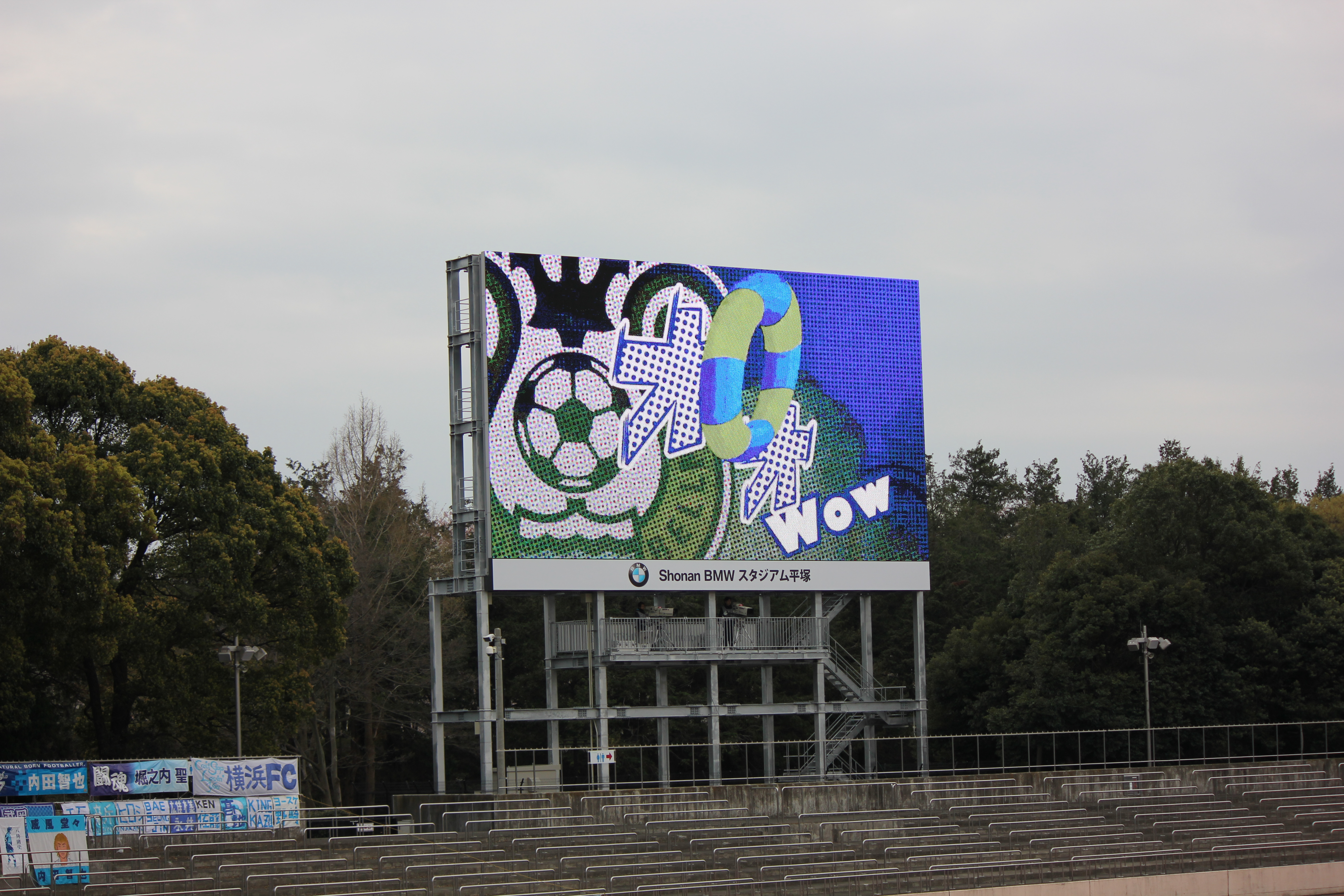 Hiratsuka Stadium